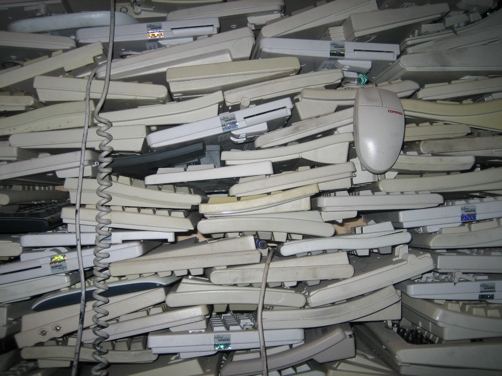 Pile of discharged computer keyboards.